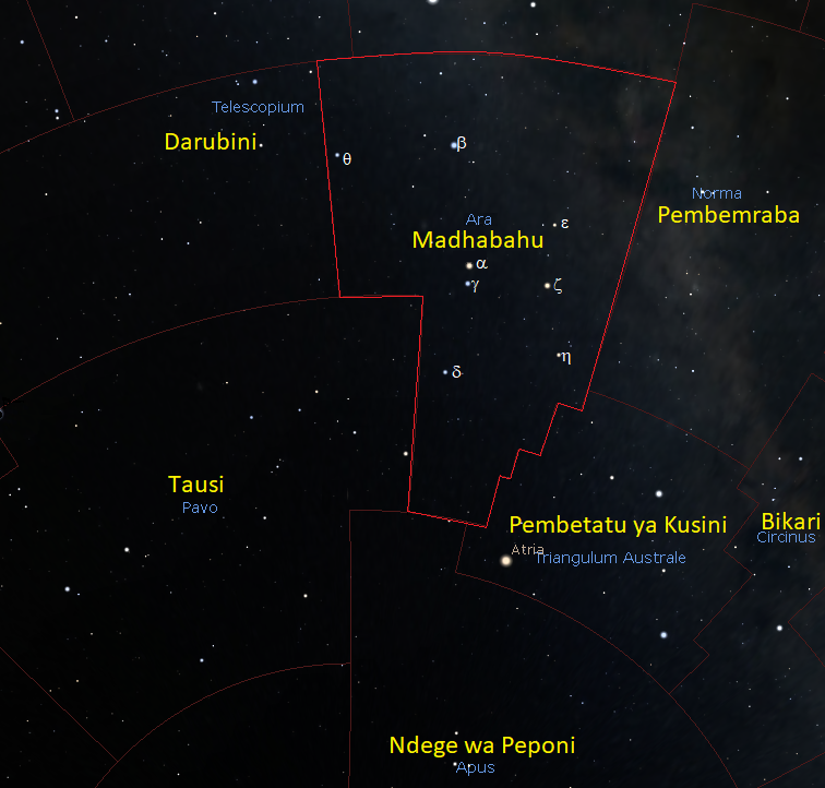 Stars of Ara constellation as seen from Tanzania Kiswahili: Nyota za kundinyota Madhabahu (Ara) jinsi inavyoonekana Tanzania